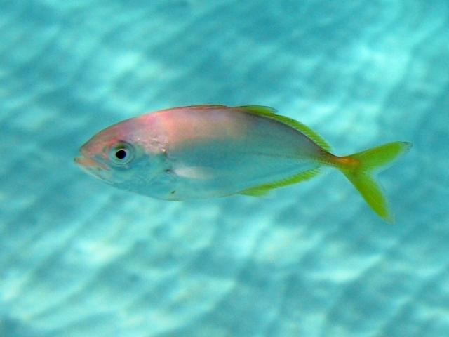 Shrimp scad fro Creta, Greece 04.10.2011, cm 9